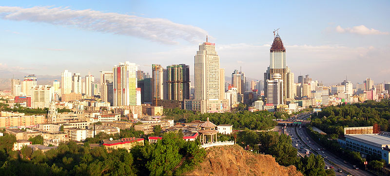 A panoramic view of Urumqi's city center taken from Hong Shan (Red Mountain).